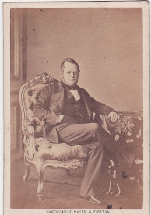 Léopold Ernest Mayer (1817-ca. 1865) & Pierre Louis Pierson (1822-1913), Portrait of Camillo Benso, earl of Cavour († 1861).